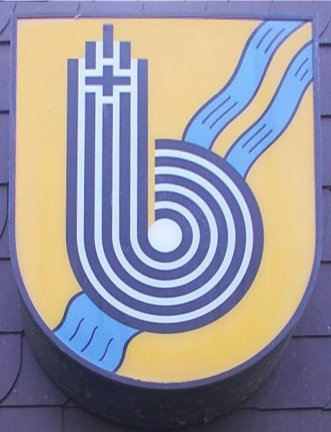 Borchen: photography of the municipality’s coat of arms, at the front of the town hall